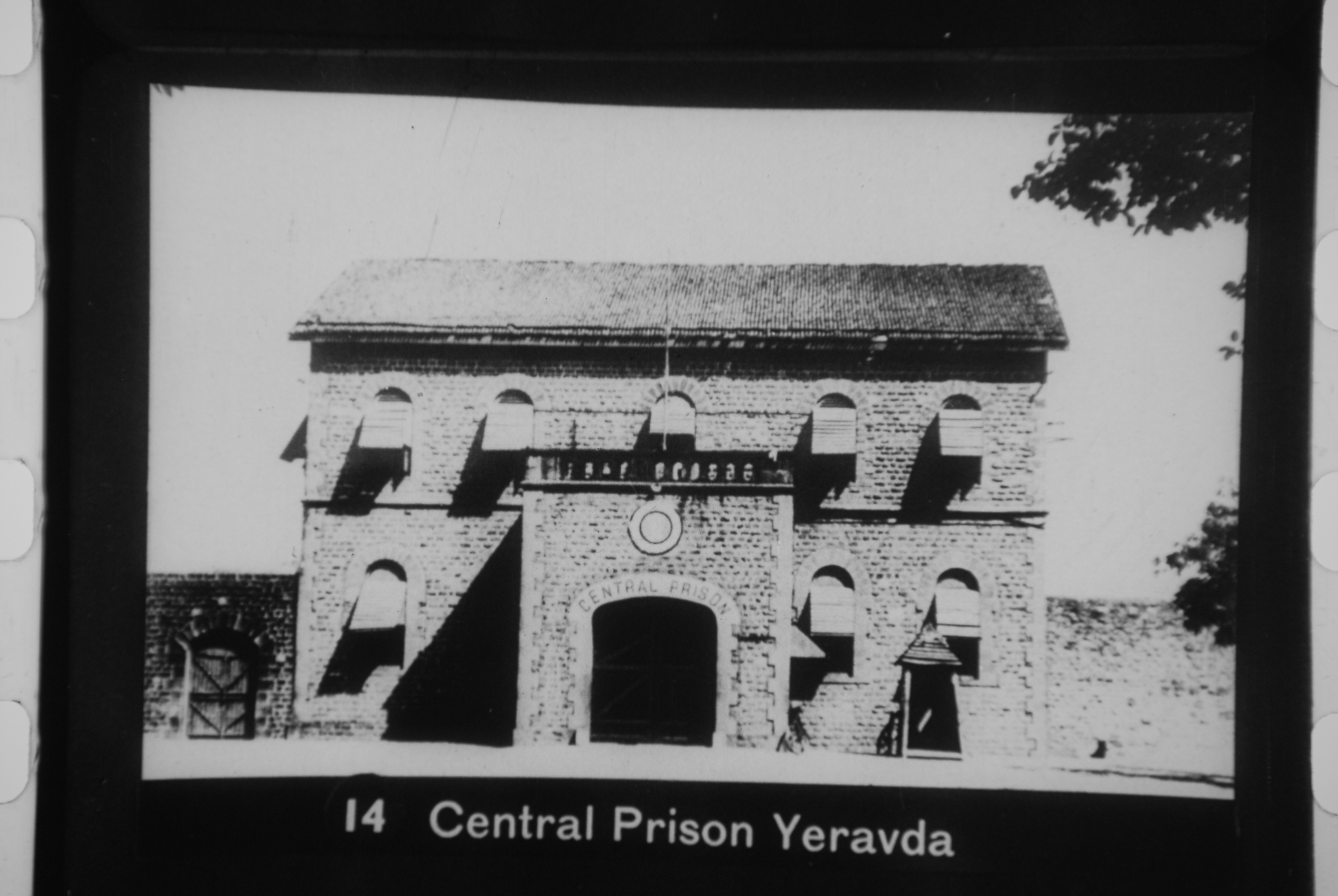 Central Prison Yeravda, Puna, India. Gandhi was jailed here several times.